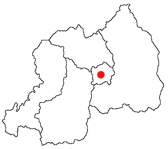 Kigali, Rwanda Location Map with 2006 provincial boundaries; created with the GIMP. Made by User:Acntx.